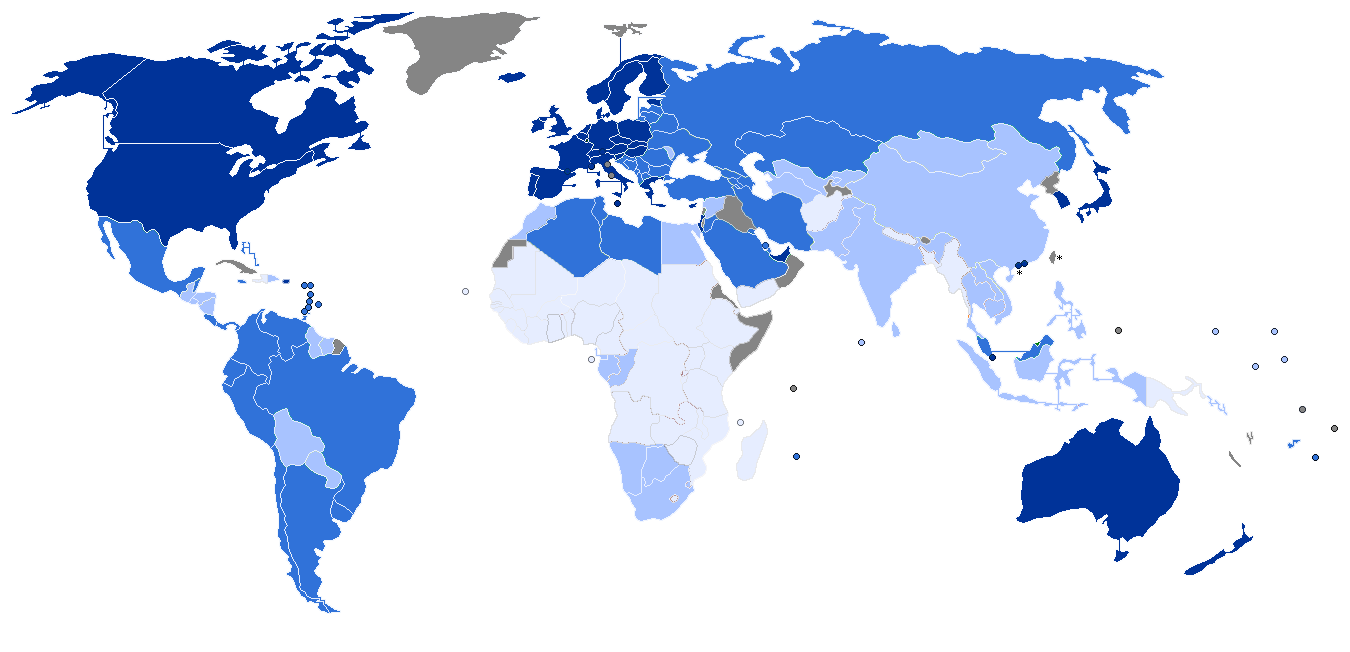 The United Nations Human Development Index (HDI) rankings for 2010. For full details, see List of countries by Human Development Index (en.wikipedia) Very High High Medium Low Data unavailable